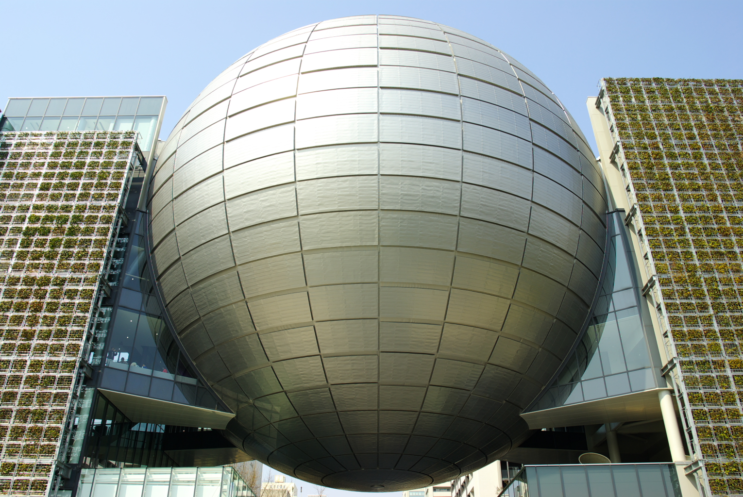 The dome of Nagoya city science museum.